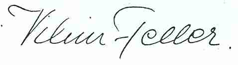 Willy Feller's signature.